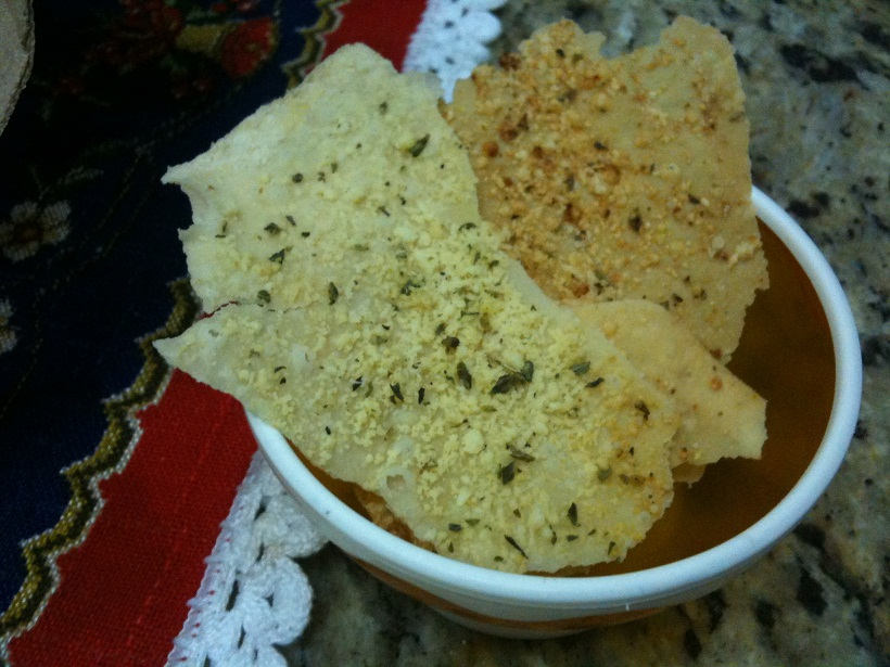 Pieces of "Pizza seca" from Parmê's pizza (White dough cracker)